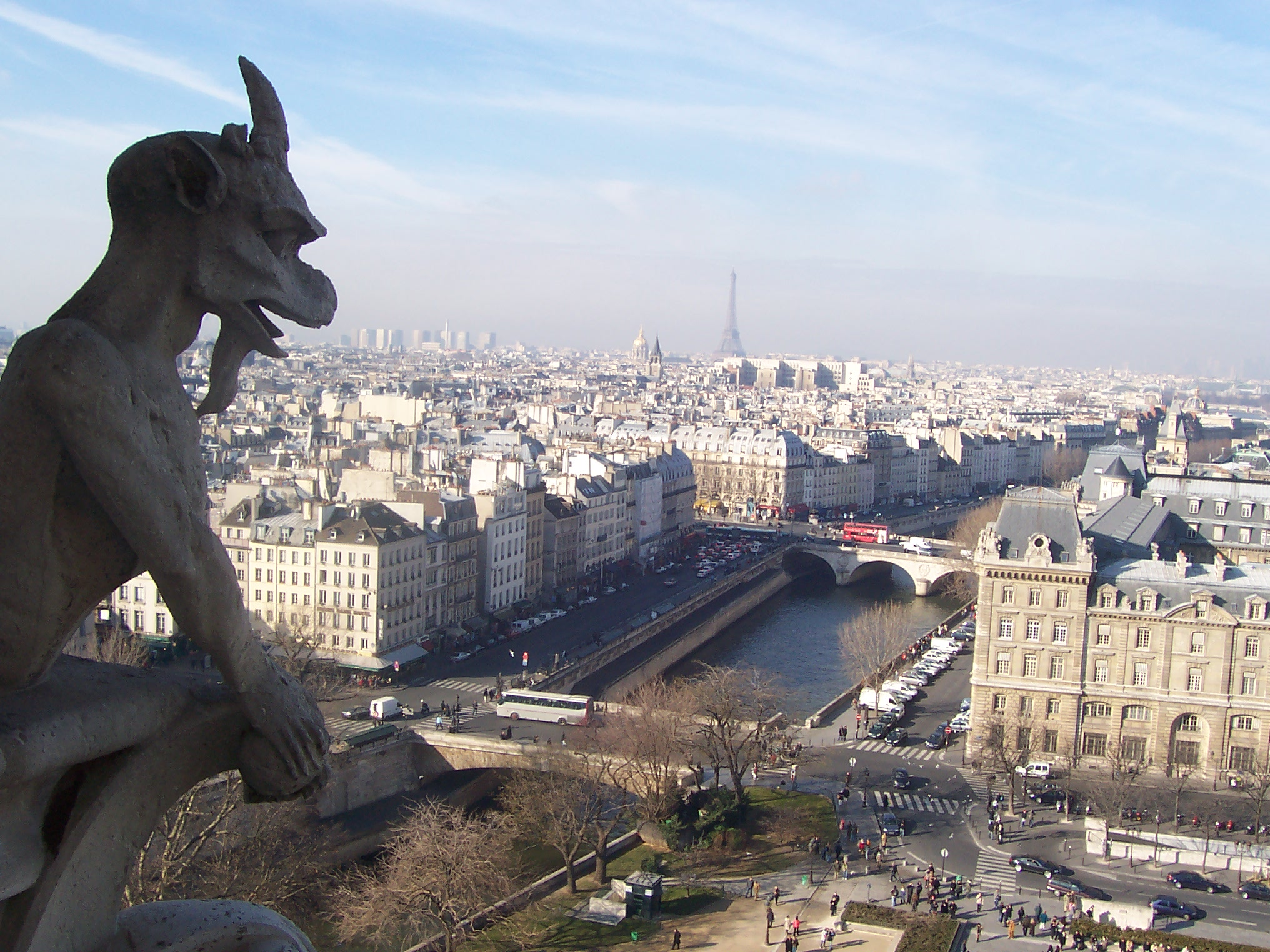 View from Notre Dame.